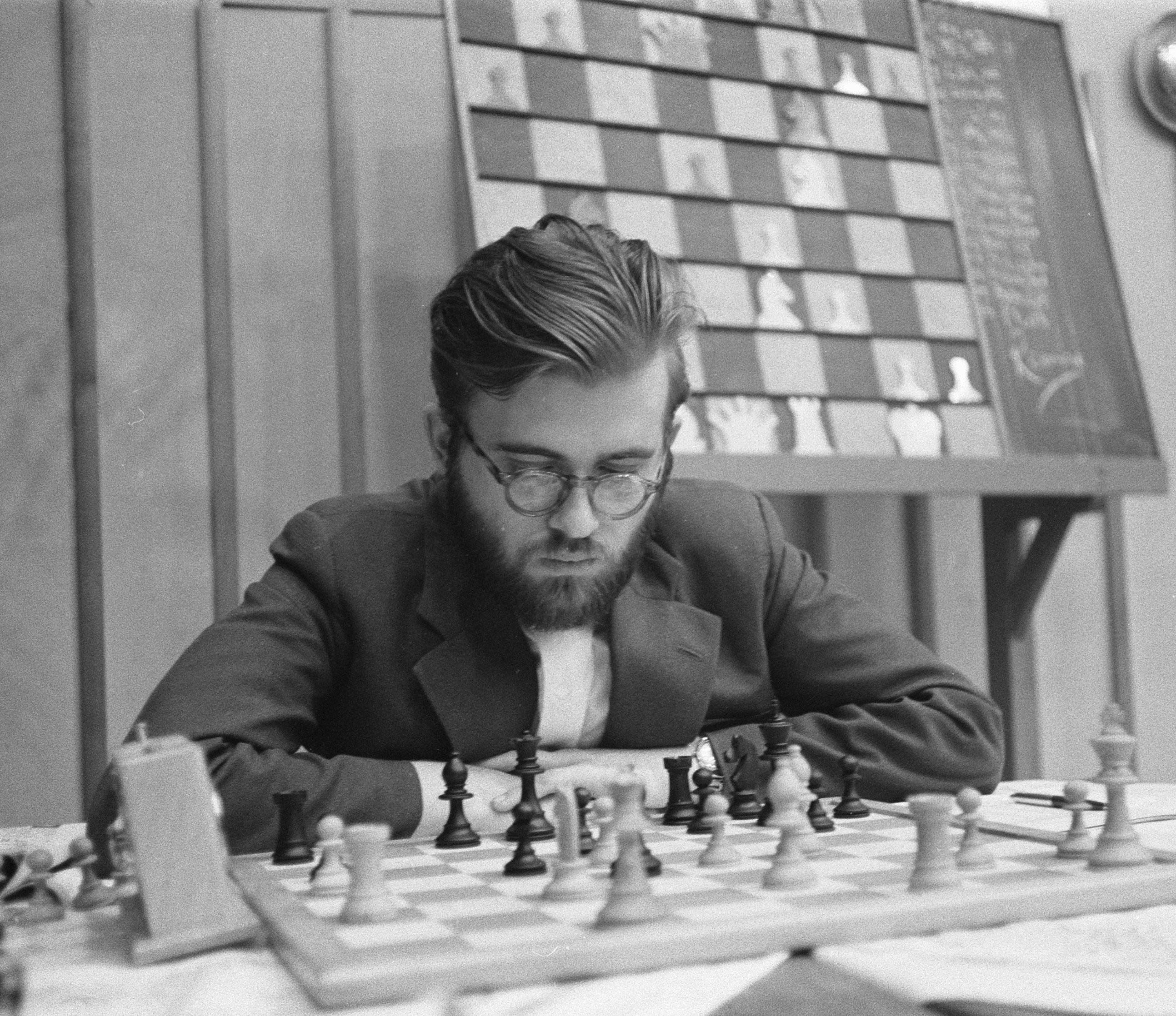 Bent Larsen playing as Black against Ernő Gereben, Hoogoven Chess Tournament (NL), 22 January 1961